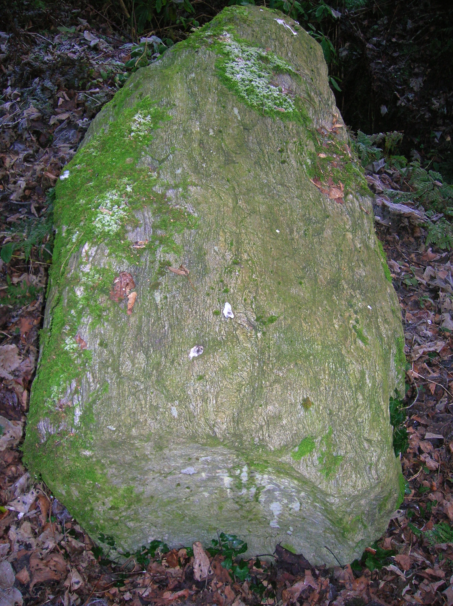 A glacial erratic boulder at Eglinton Country Park, North Ayrshire, Scotland.